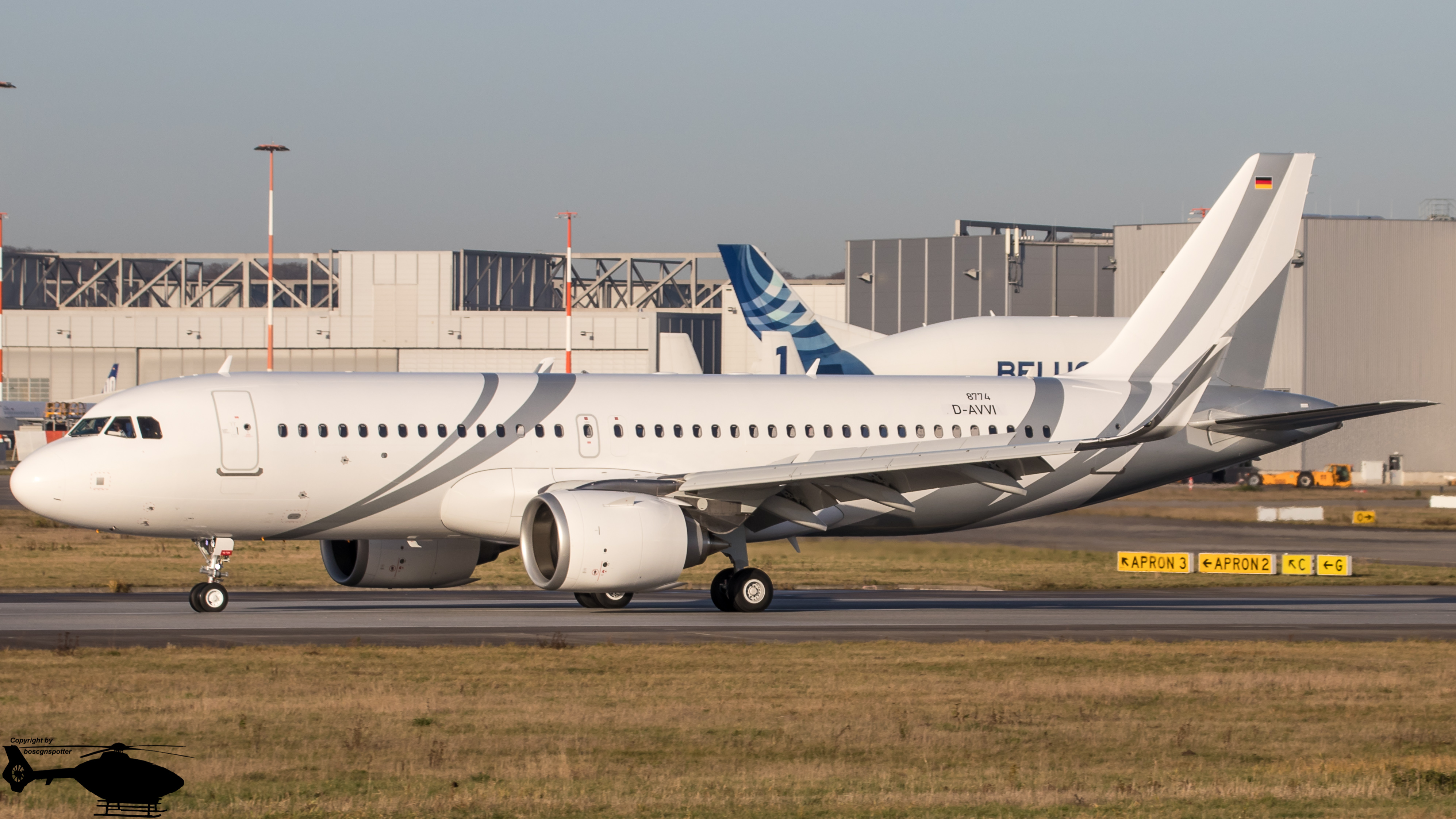 Airbus A320Neo Corporate Jet slowing at Hamburg Finkenwerder after performing her first flight. MSN 8774 will be T7-HHH